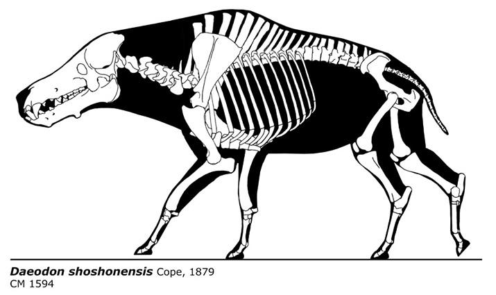 Skeletal reconstruction of the specimen CM 1594 of Daeodon shoshonensis, the most complete specimen found yet, it was originally the holotype of Dinohyus. It's a large animal but based on the type being just a bit smaller and most of the other (few and fragmentary) known specimens being about the same or even slightly larger, CM 1594 appears to represent the "average" fully grown adult.